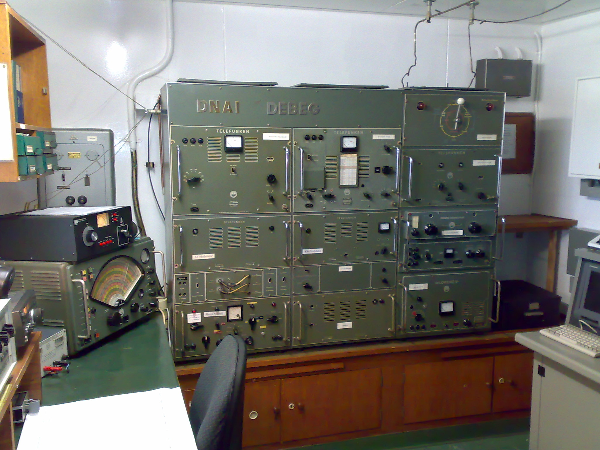 Picture of DEBEG ship radio transmitters of MV Cap San Diego callsign DNAI, Mueseum ship in the port of Hamburg; state of the art in the mid 1960